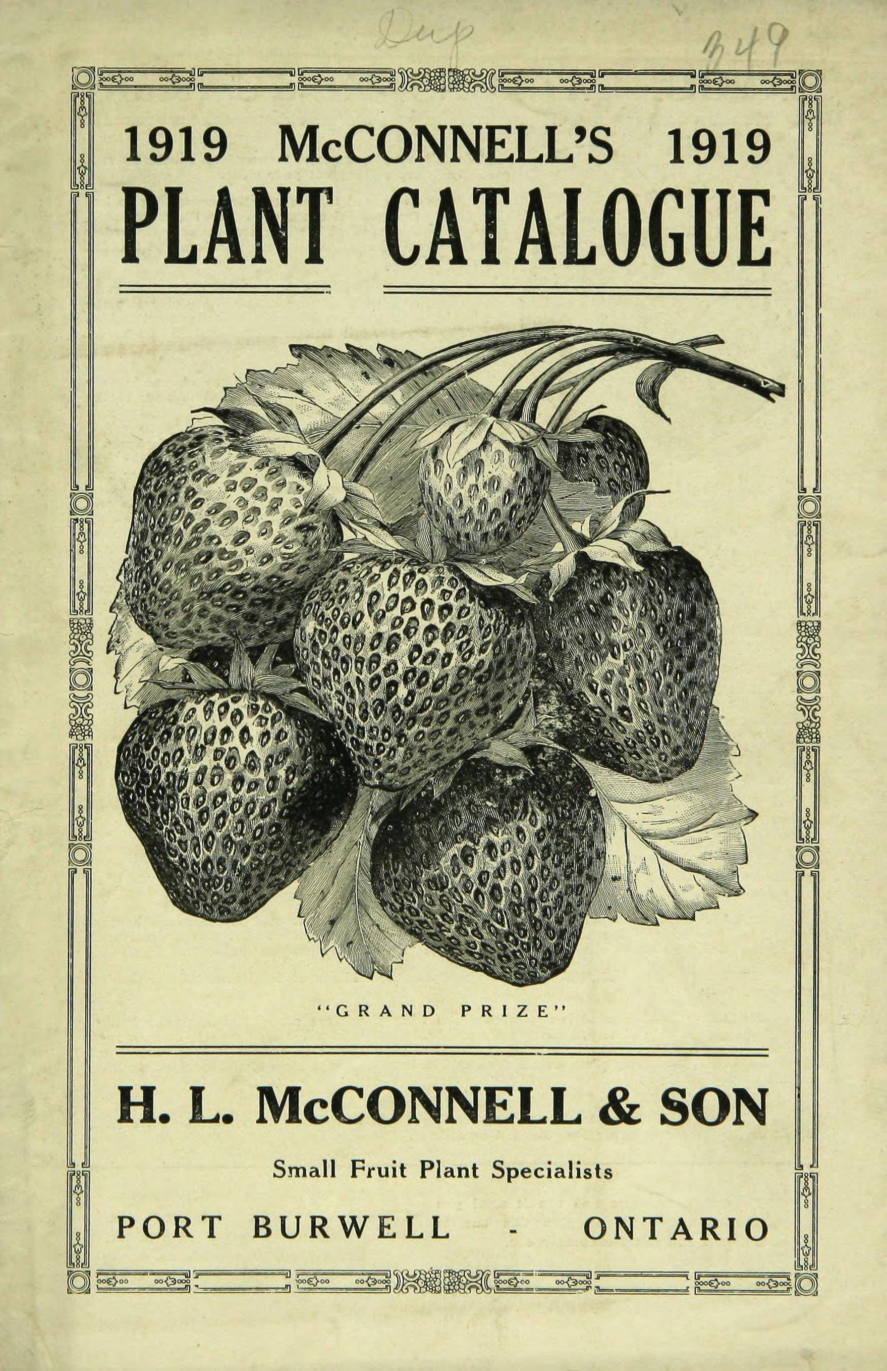 [McConnell Nursery Co. Ltd. materials]